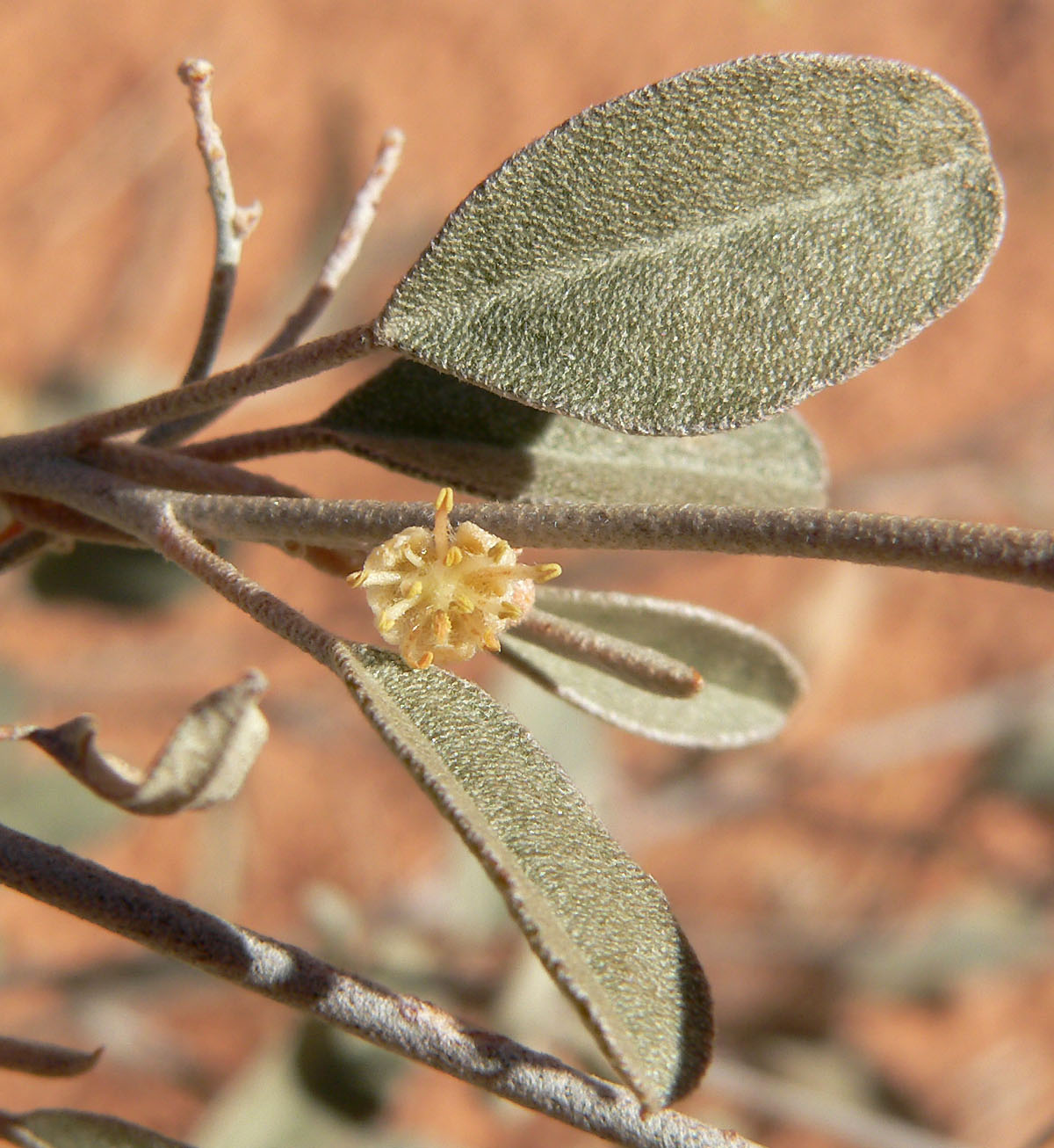 Croton californicus in the White Domes area, Valley of Fire, southern Nevada